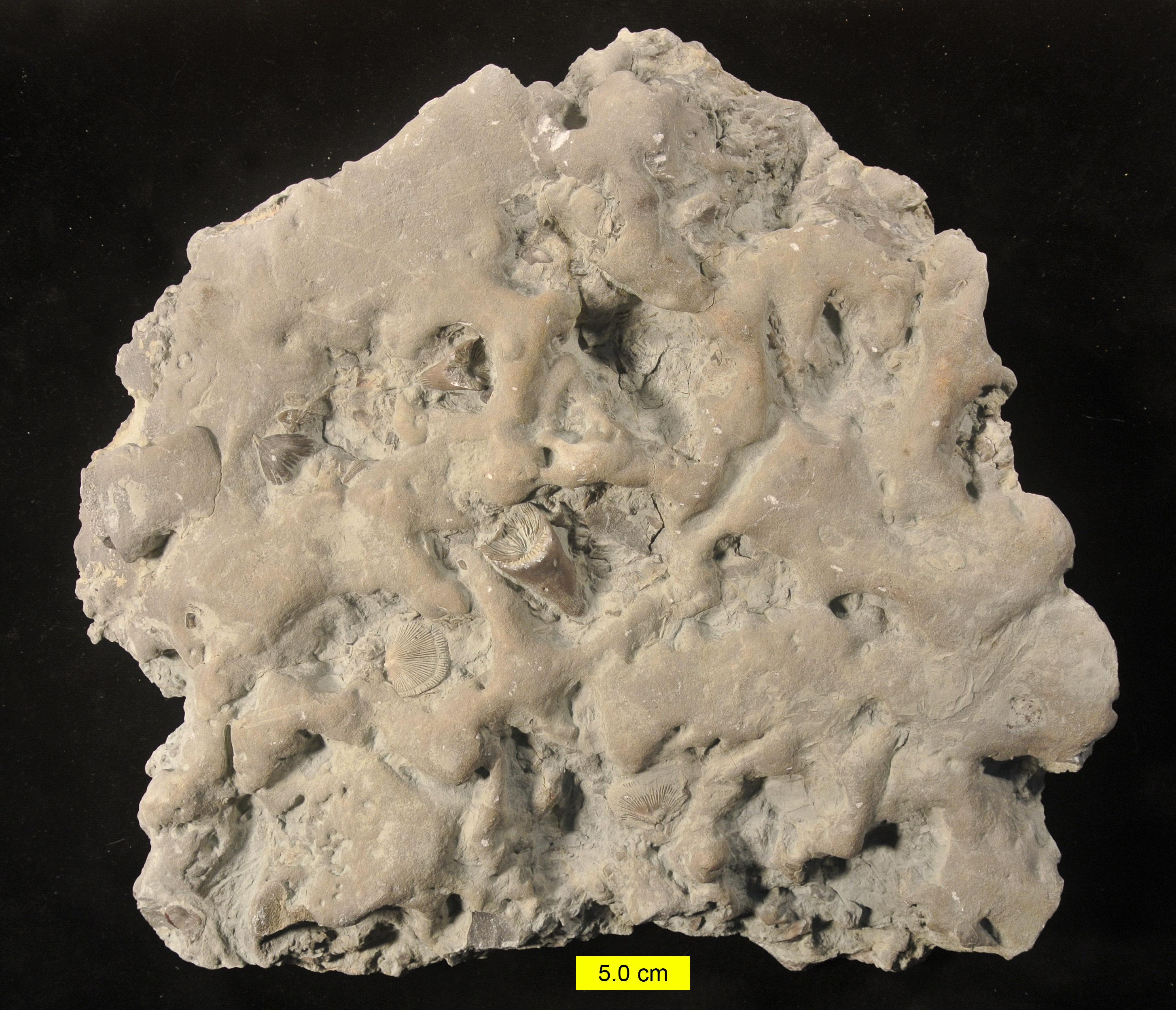 Carbonate hardground with corals, bryozoans and brachiopods from the Liberty Formation (Upper Ordovician), southern Ohio.